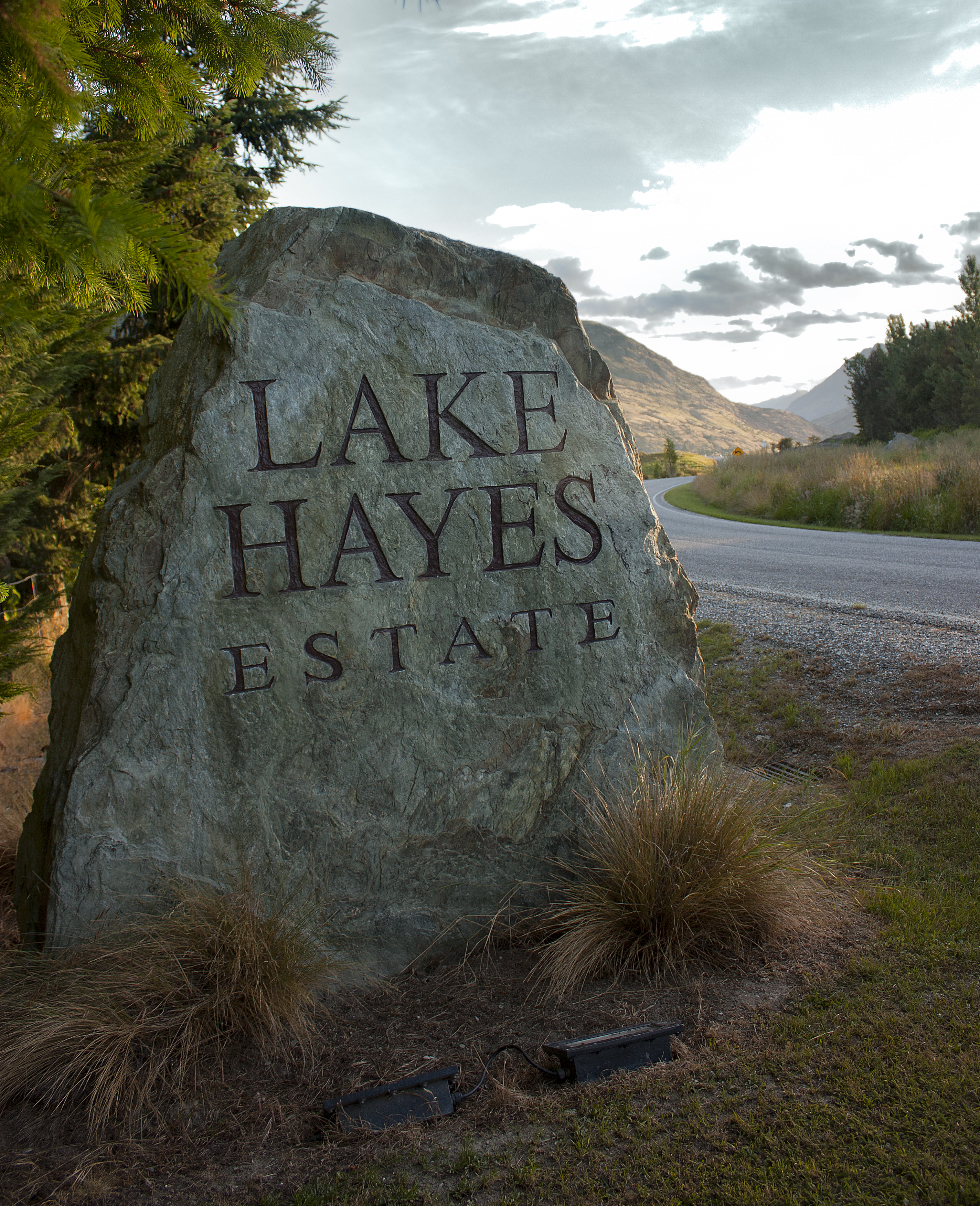 Sign made of rock at the entrance to the residential sub division of Lake Hayes Estate in Queenstown New Zealand.